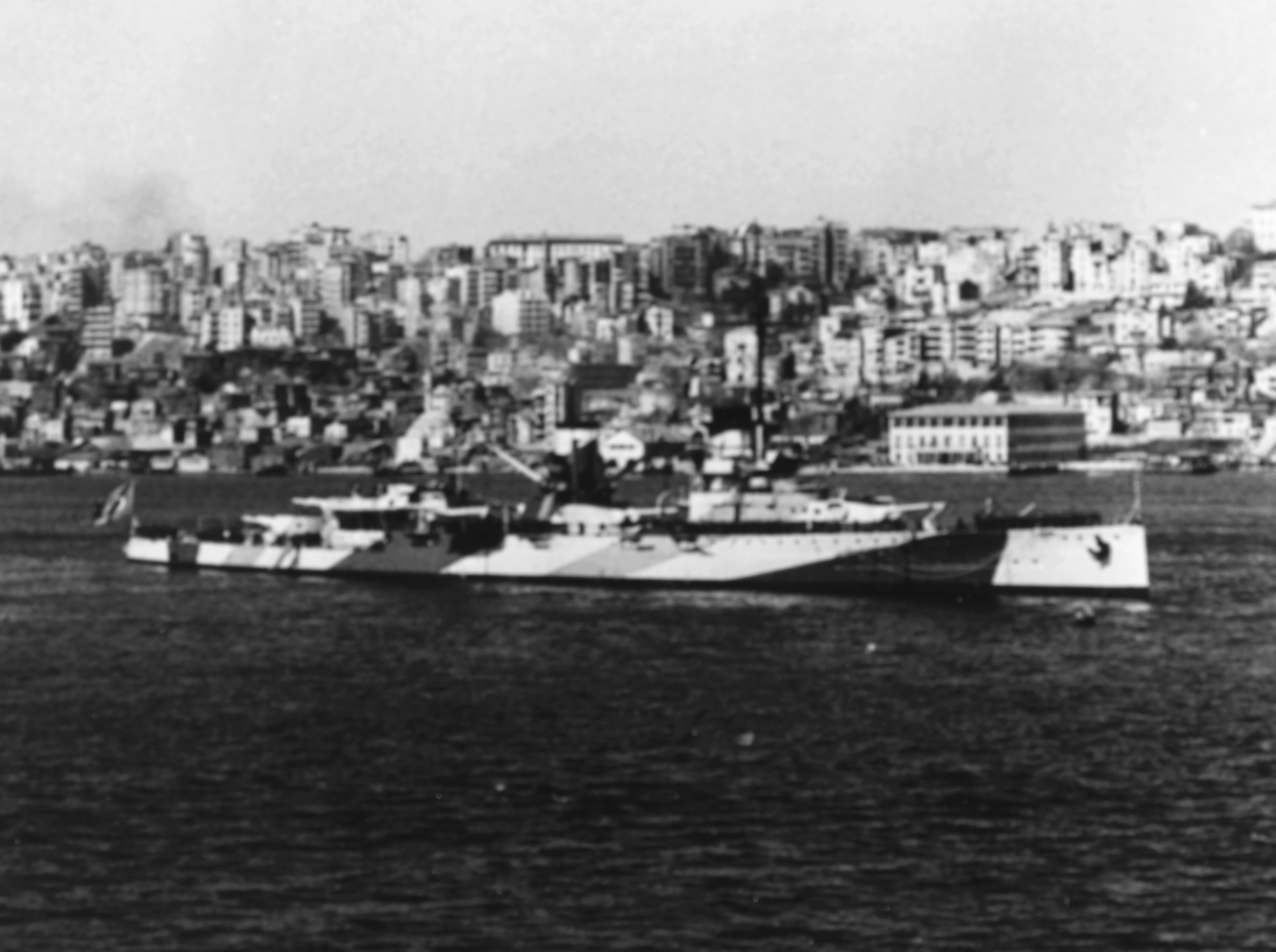 The Turkish battlecruiser Yavuz (formerly the German Goeben) off Istanbul, Turkey, in April 1946, during the visit of the U.S. Navy battleship USS Missouri (BB-63) there.